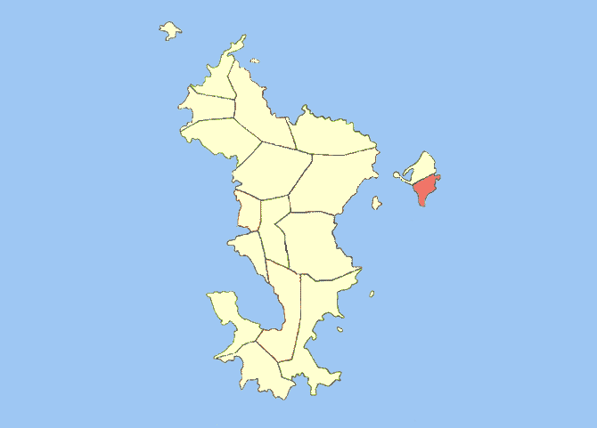 made map myself